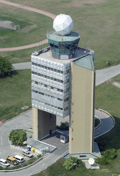 Ferihegy, Hungary, Budapest, airport